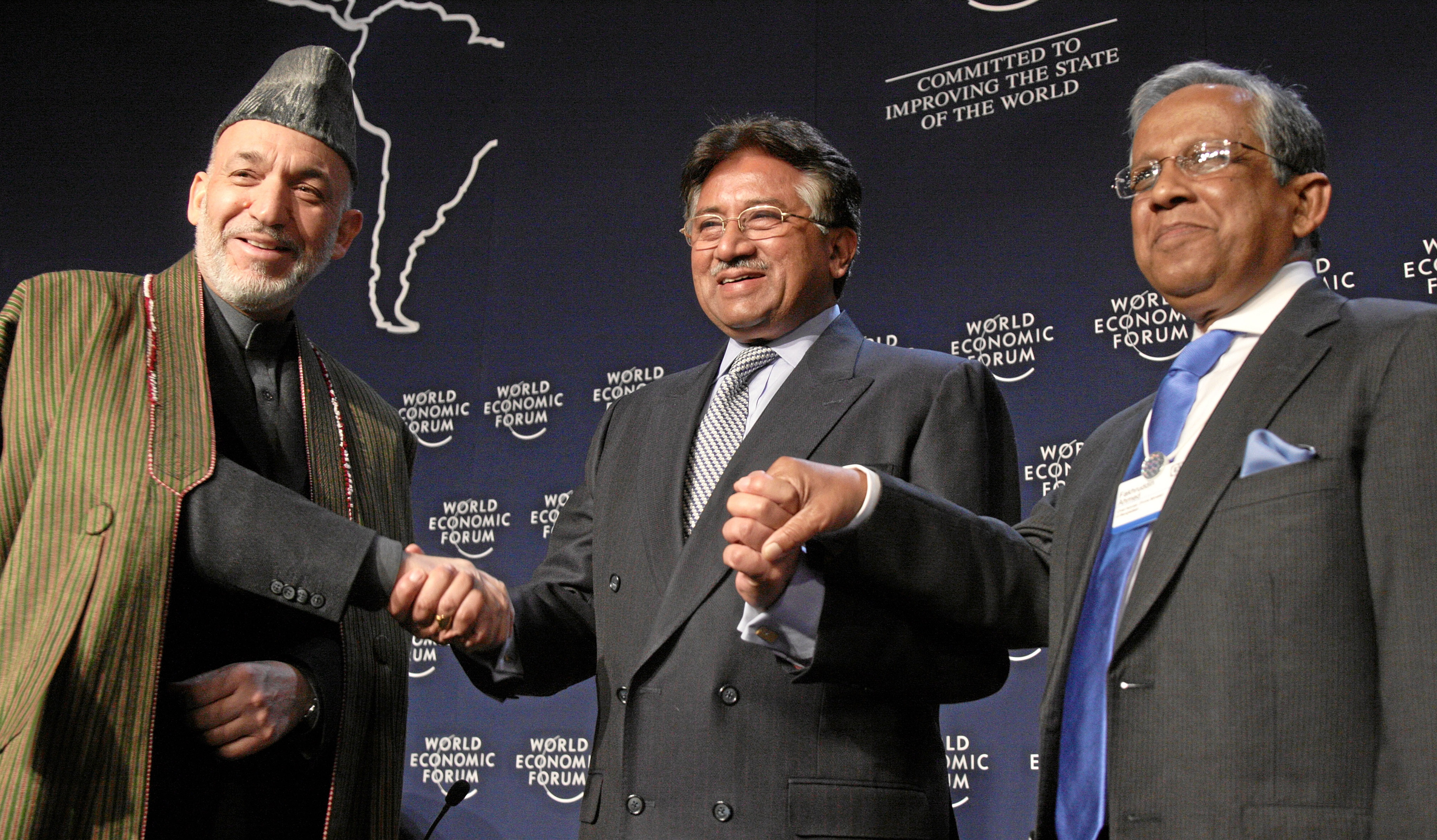 Hamid Karzai (L), President of Afghanistan, Pervez Musharraf (C), President of Pakistan and Fakhruddin Ahmed, Chief Adviser (Prime Minister) of Bangladesh captured during the session 'The Quest for Peace and Stability' at the Annual Meeting 2008 of the World Economic Forum in Davos, Switzerland, January 24, 2008.